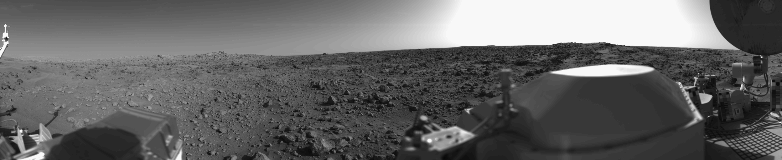 Original Caption Released with NASA image: This is the first panoramic view by Viking 1 from the surface of Mars. The out of focus spacecraft component toward left center is the housing for the Viking sample arm, which is not yet deployed. Parallel lines in the sky are an artifact and are not real features. However, the change of brightness from horizon towards zenith and towards the right (west) is accurately reflected in this picture, taken in late Martian afternoon. At the horizon to the left is a plateau-like prominence much brighter than the foreground material between the rocks. The horizon features are approximately three kilometers (1.8 miles) away. At left is a collection of fine-grained material reminiscent of sand dunes. The dark sinuous markings in left foreground are of unknown origin. Some unidentified shapes can be perceived on the hilly eminence at the horizon towards the right. A horizontal cloud stratum can be made out halfway from the horizon to the top of the picture. At left is seen the low gain antenna for receipt of commands from the Earth. The projections on or near the horizon may represent the rims distant impact craters. In right foreground are color charts for Lander camera calibration, a mirror for the Viking magnetic properties experiment and part of a grid on the top of the Lander body. At upper right is the high gain dish antenna for direct communication between landed spacecraft and Earth. Toward the right edge is an array of smooth fine-grained material which shows some hint of ripple structure and may be the beginning of a large dune field off to the right of the picture, which joins with dunes seen at the top left in this 300° panoramic view. Some of the rocks appear to be undercut on one side and partially buried by drifting sand on the other. In the NASA Viking image archive more information can be found at Viking Lander Image 12A002.SUR.